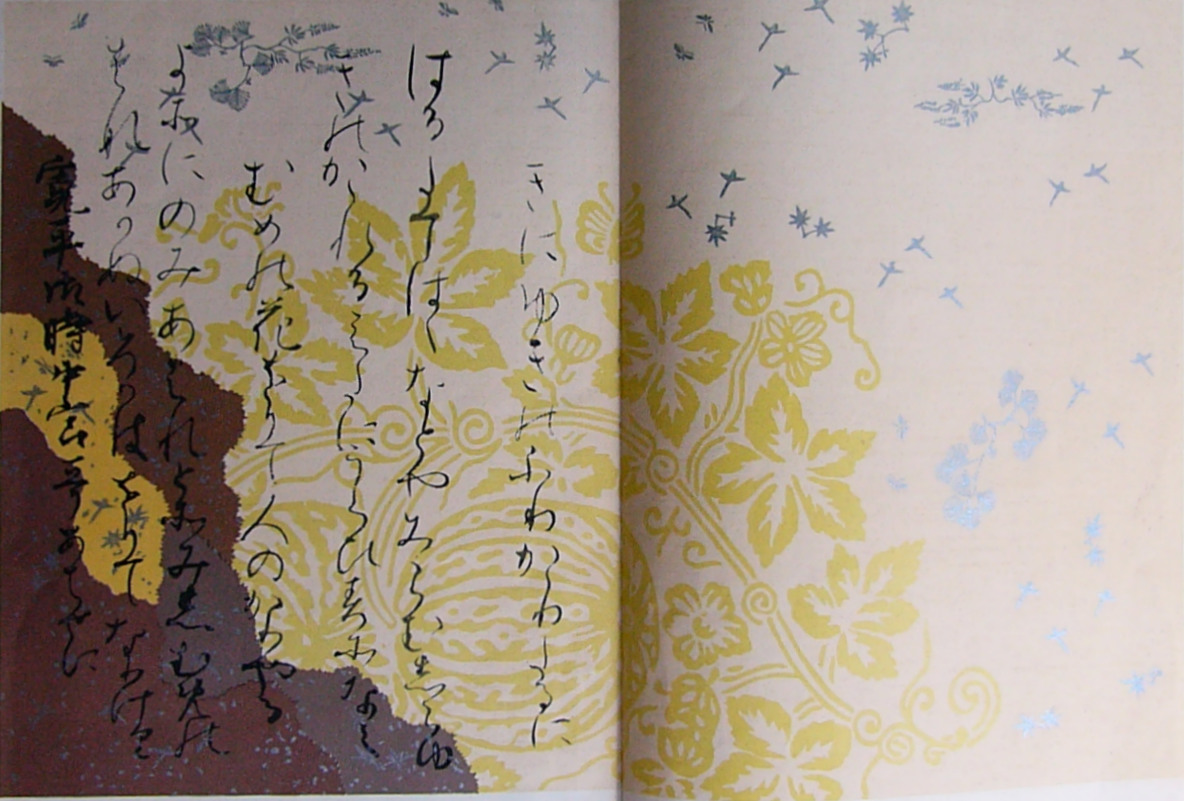 Two pages of the collected poems of Sosei-Hoshi(9th-10th century). Silver, Colour, and ink on ornamented paper. 20cm height, 32cm wide. One of the Collection of the works of thirty six master poets in the NISHI-HONGANJI, Kyoto. Most luxurious illuminated manuscript books survived from ancient Japan.